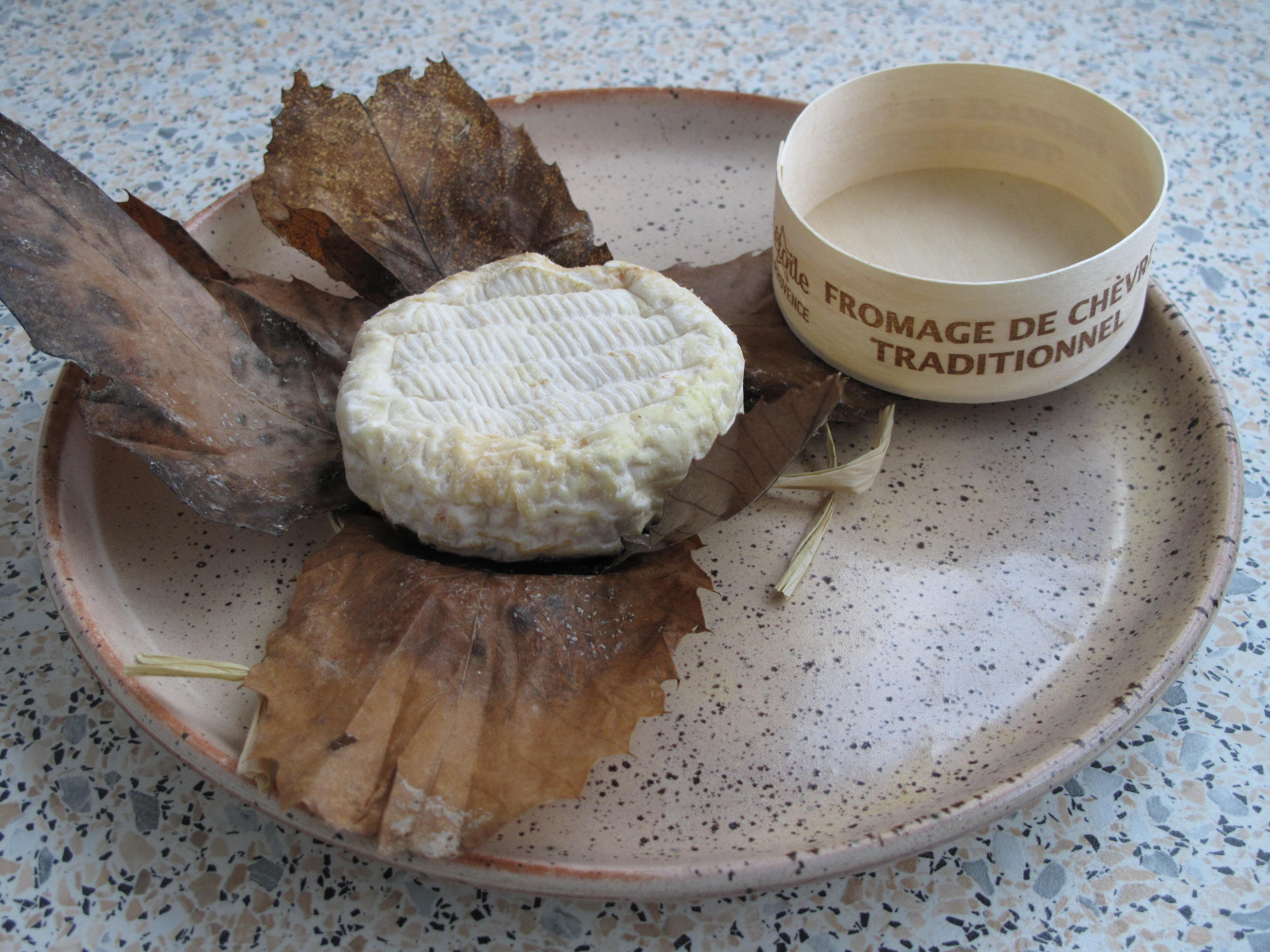 French goat's cheese Banon, and its traditionnel enveloppe of leaves of chestnut tree